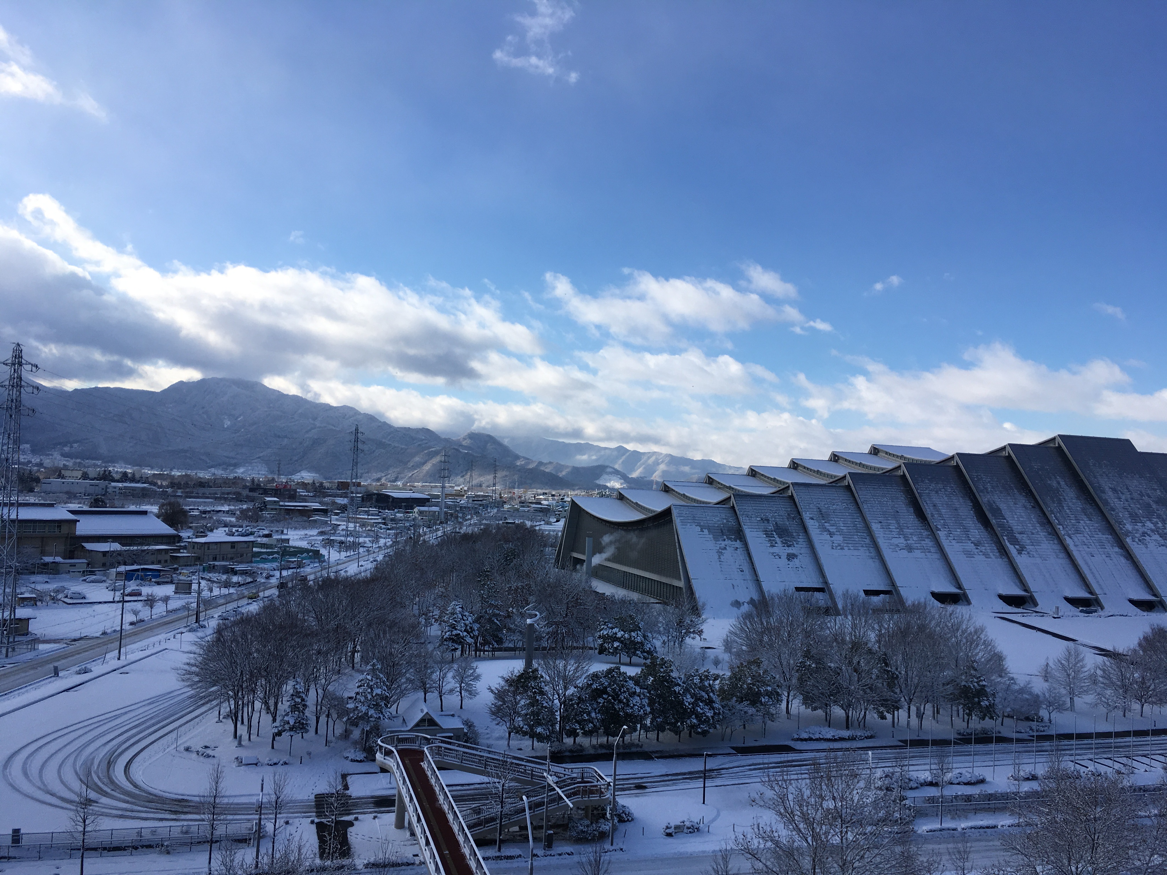 This is the exterior northeast corner of the M-Wave Olympics Speed Skating Oval, in Nagano.